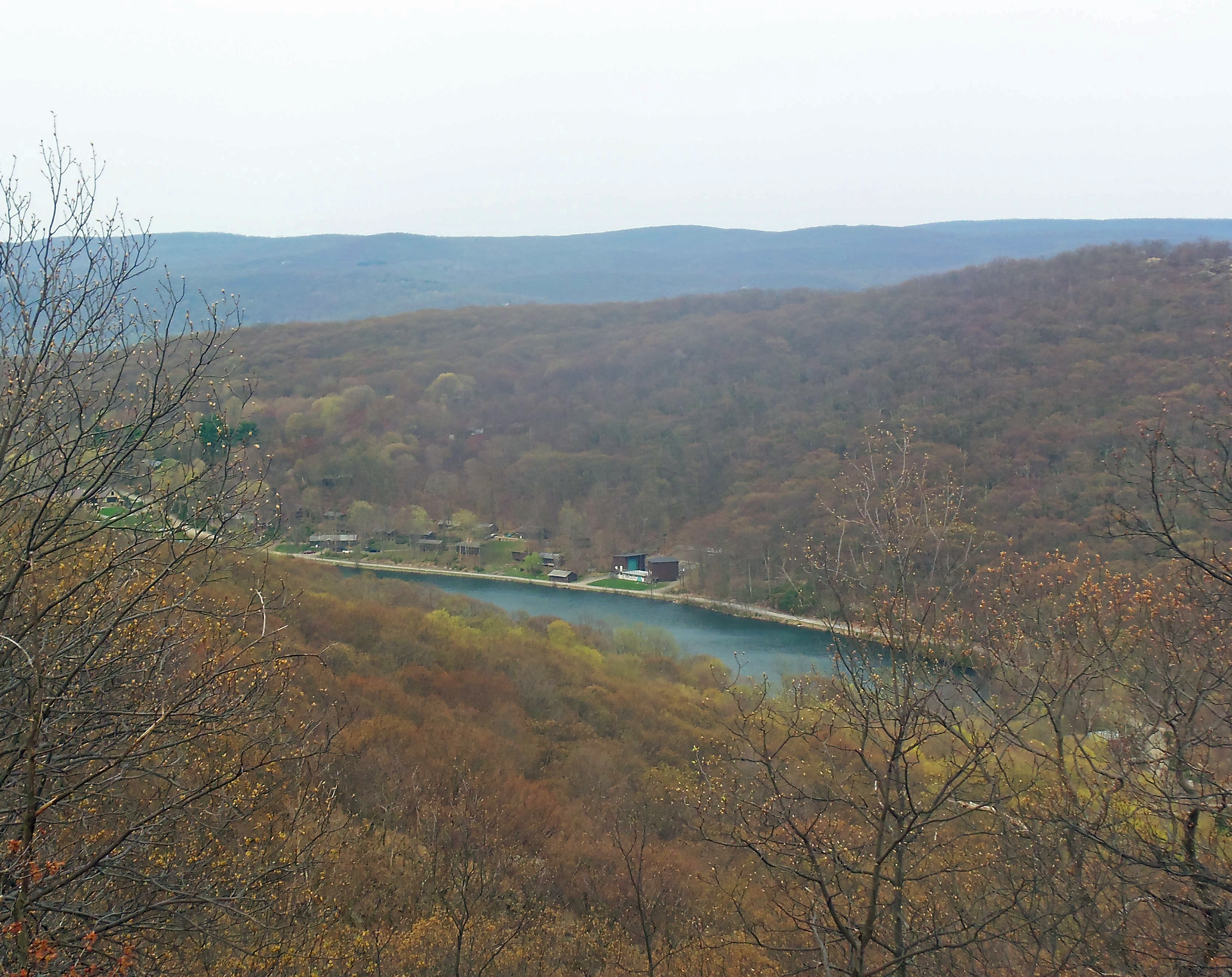 Surprise Lake Camp facilities seen from a viewpoint along Breakneck Ridge to its northwest.